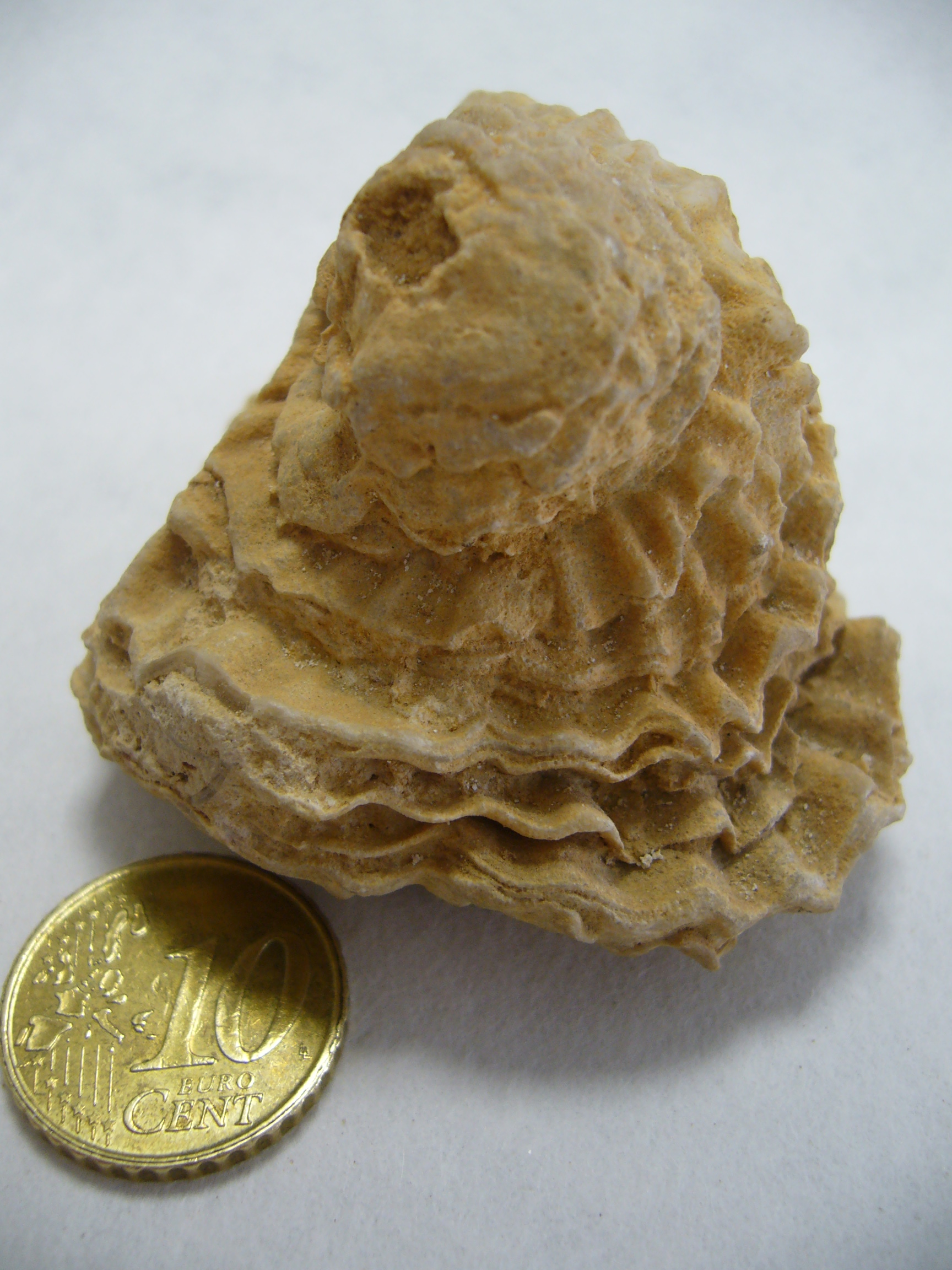 Radiolites sp. fossil (Late Cretaceous) founded in Burgos, in a laboratory of practices of the Faculty of Sciences of the University of Corunna, Spain.